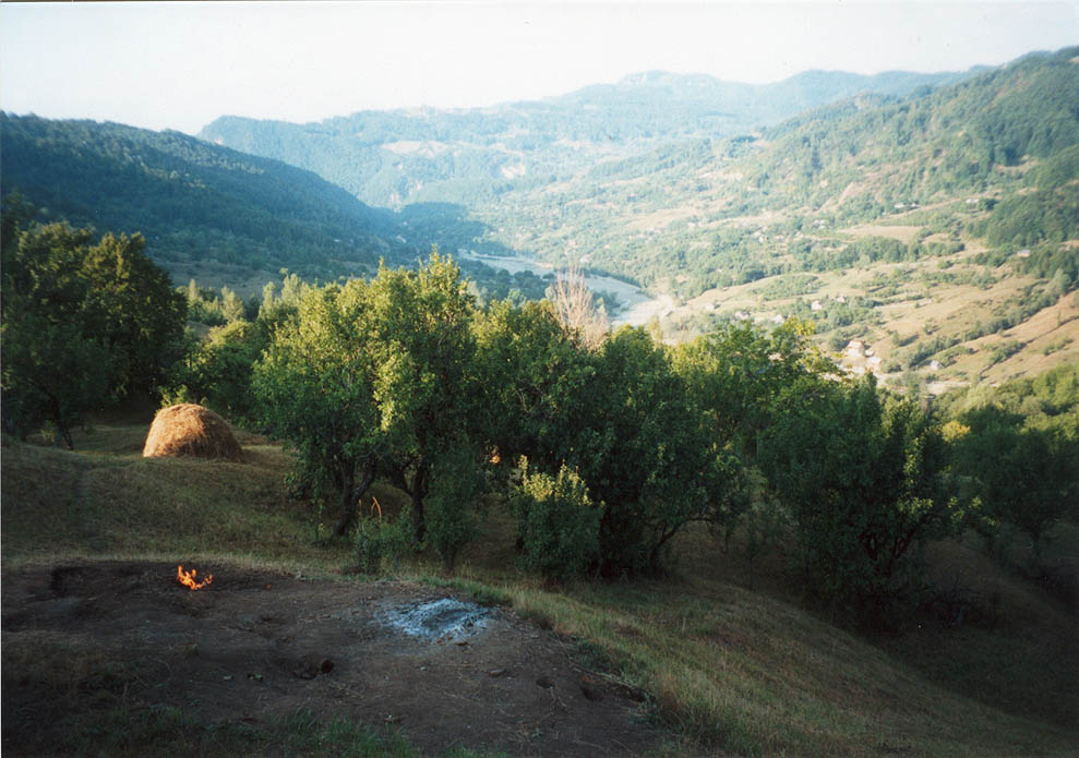 View on the village Terca (Buzău County) from Focul viu